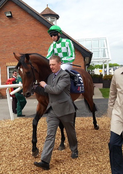 Declaration of War the horse